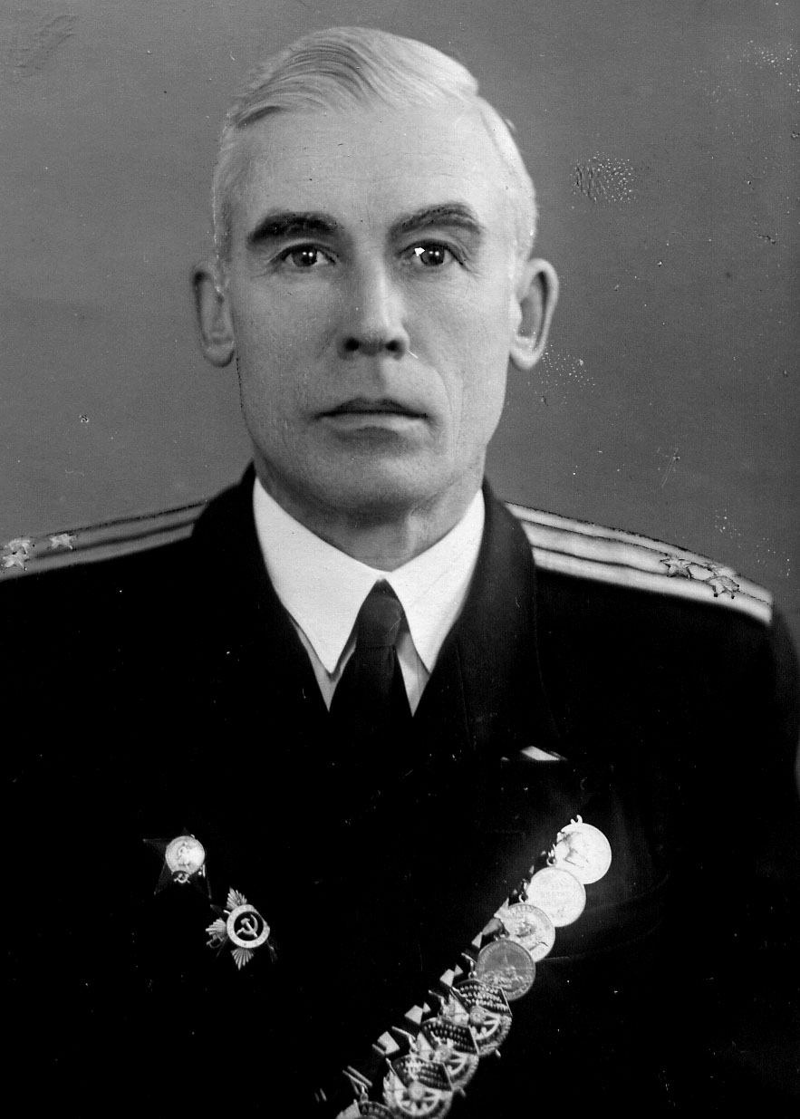 1960 портрет